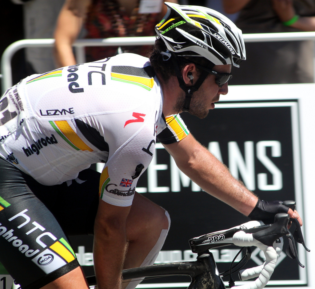 Mark Cavendish finishing Stage 3 of the 2011 Tour Down Under in Stirling.